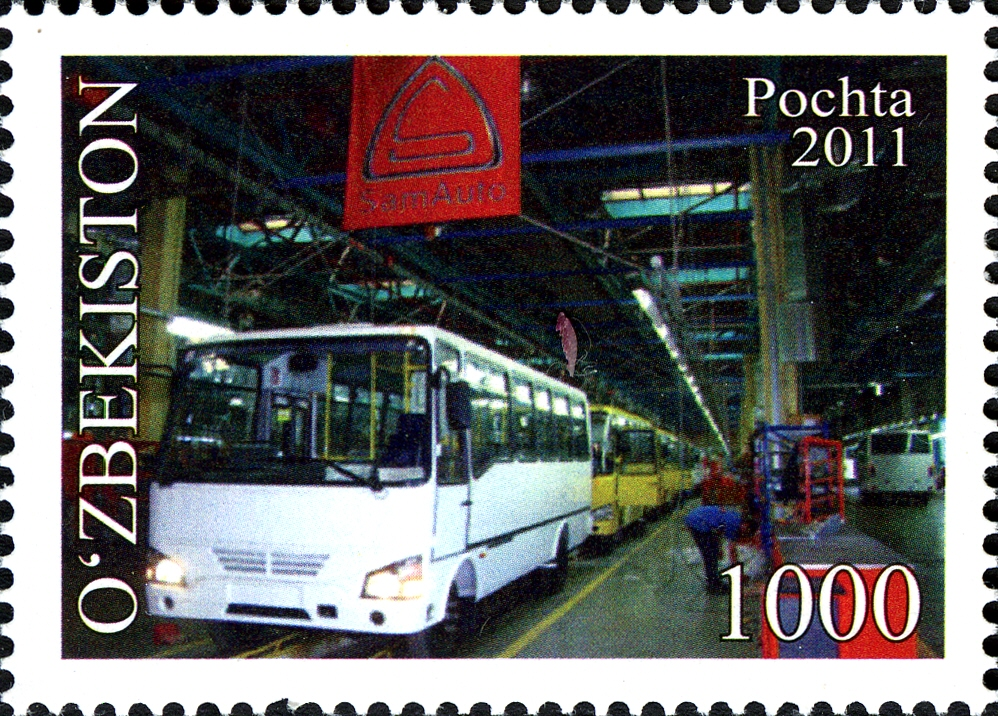 Stamps of Uzbekistan, 2011